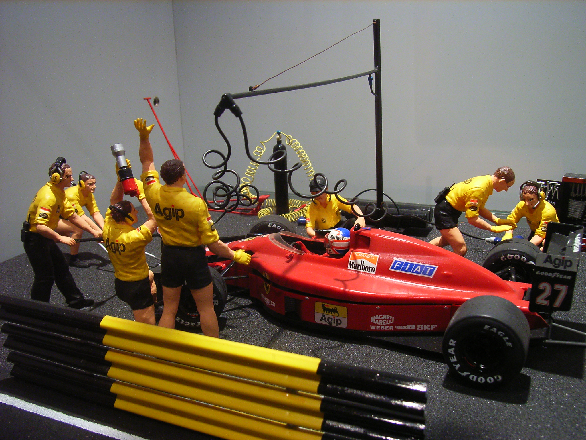 The Grad Prix Museum in Macau 澳門大賽車博物館 在 新口岸區 高美士街